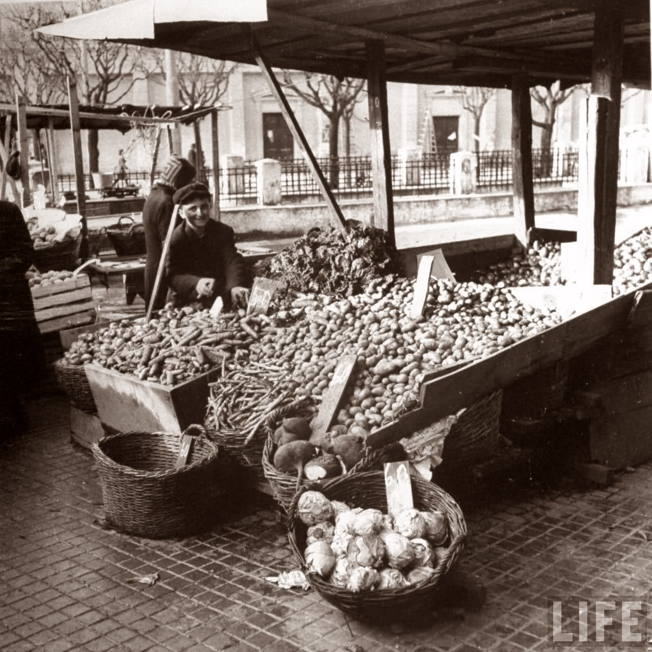 Old Belgrade Streets